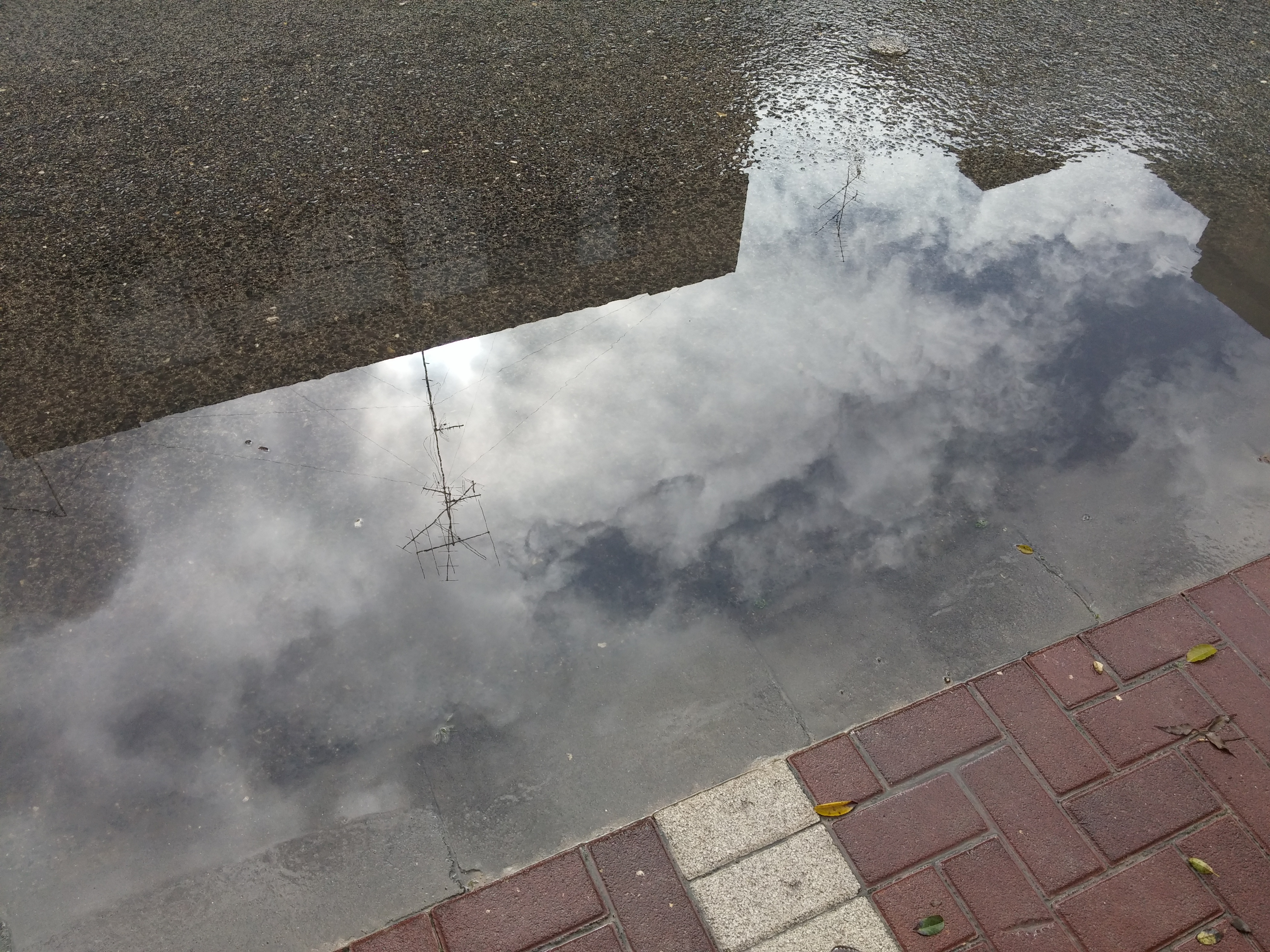 Reflection of the sky on a winter Road puddle in Ramat Gan, Israel